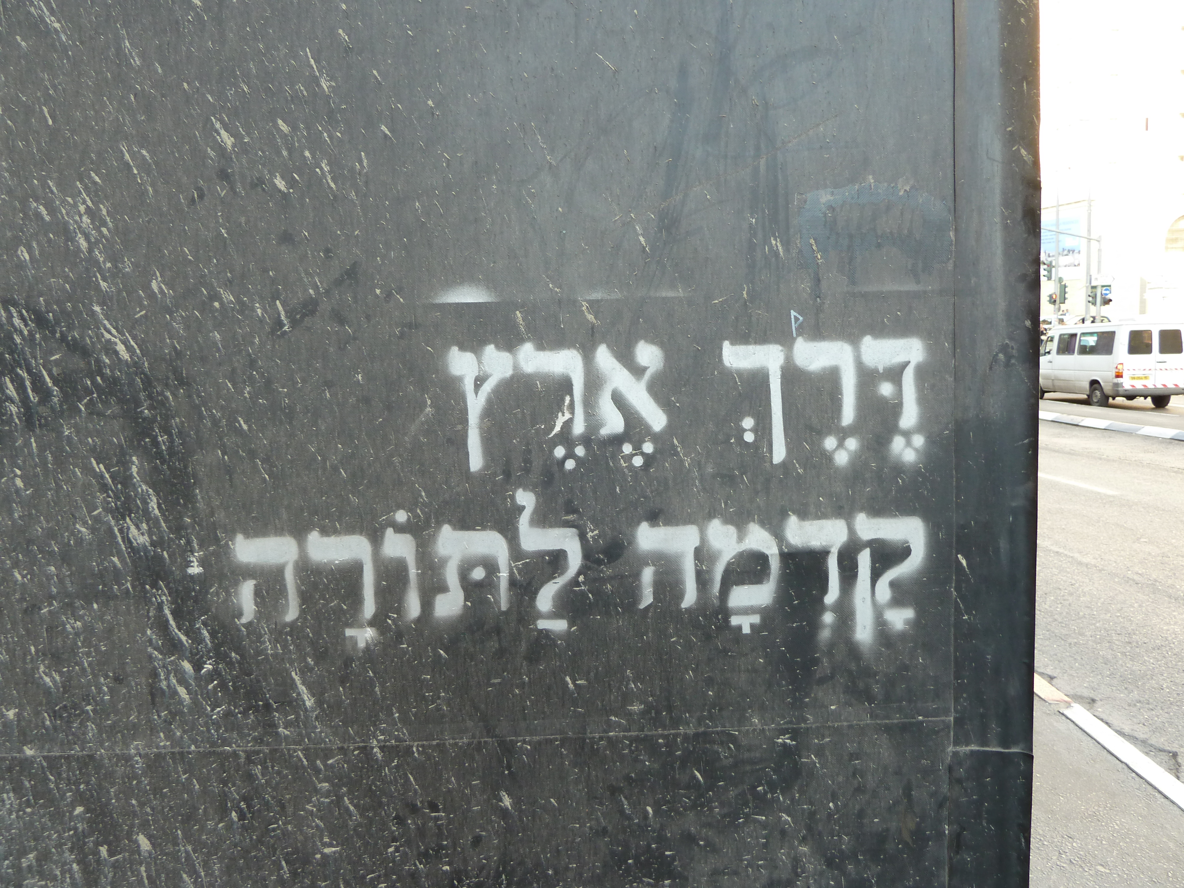 Jerusalem, King David Street, Waldorf Fence with graffiti דֶּרֶךְ אֶרֶץ קָדְמָה לַתּוֹרָה (Proper behavior precedes the Torah)